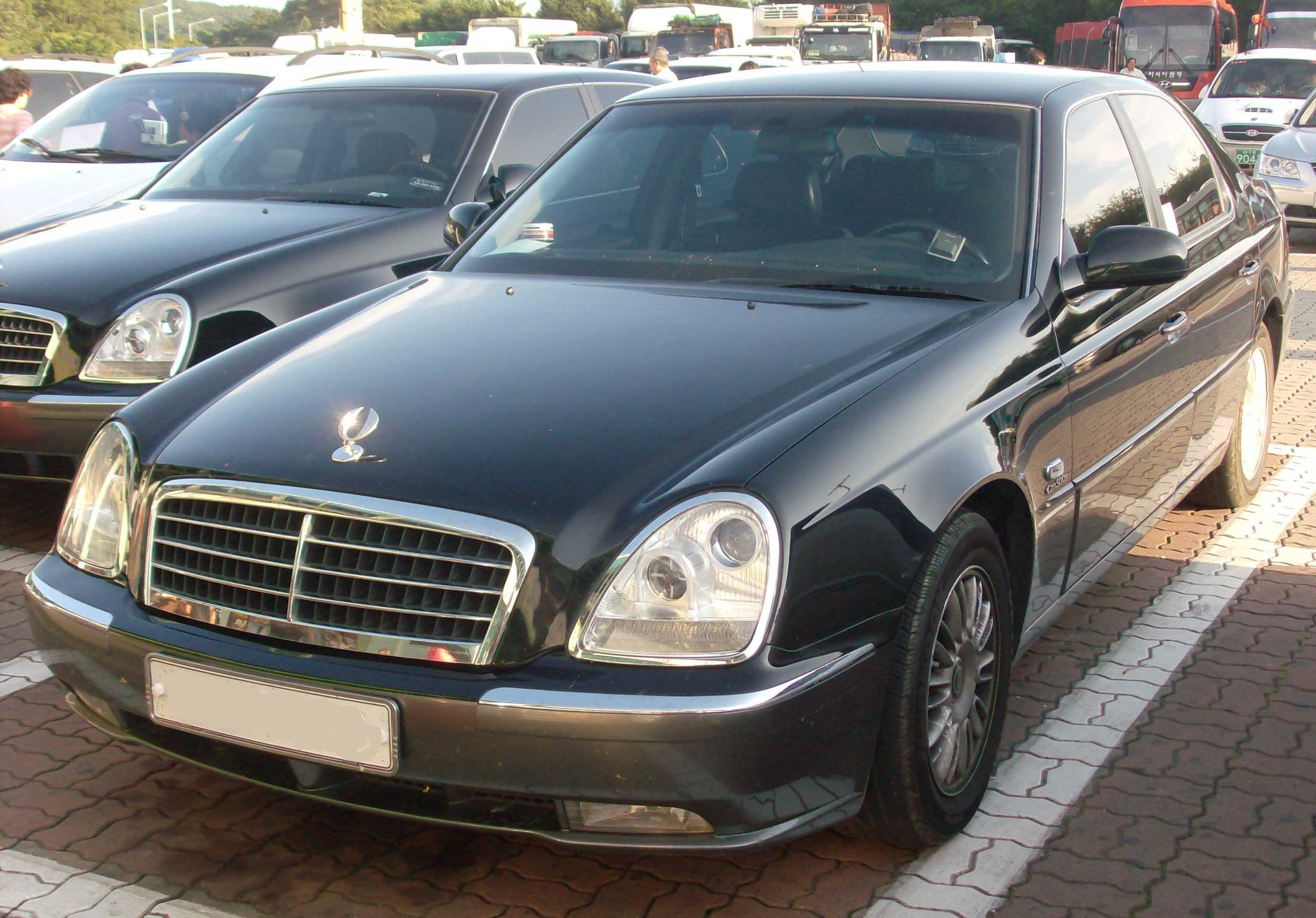 Ssangyong Chairman CM500s photographed in South Korea.